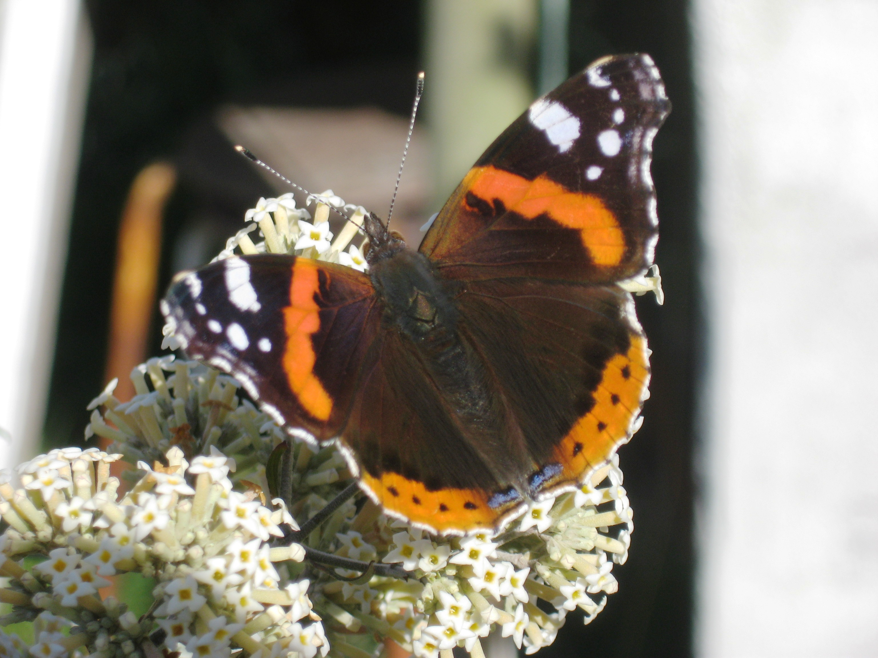 Photo of Red Admiral butterfly (Vanessa atalanta) nectaring on Buddleja auriculata, Portchester, UK